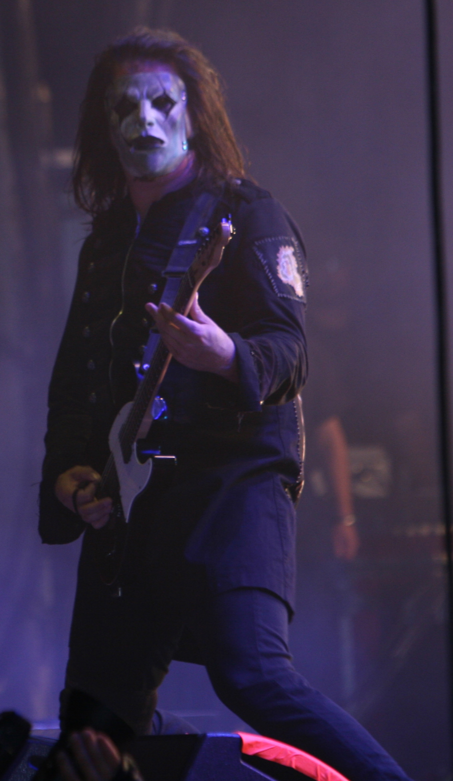 Guitarist Jim Root of Slipknot at the mayhem festival 2008.